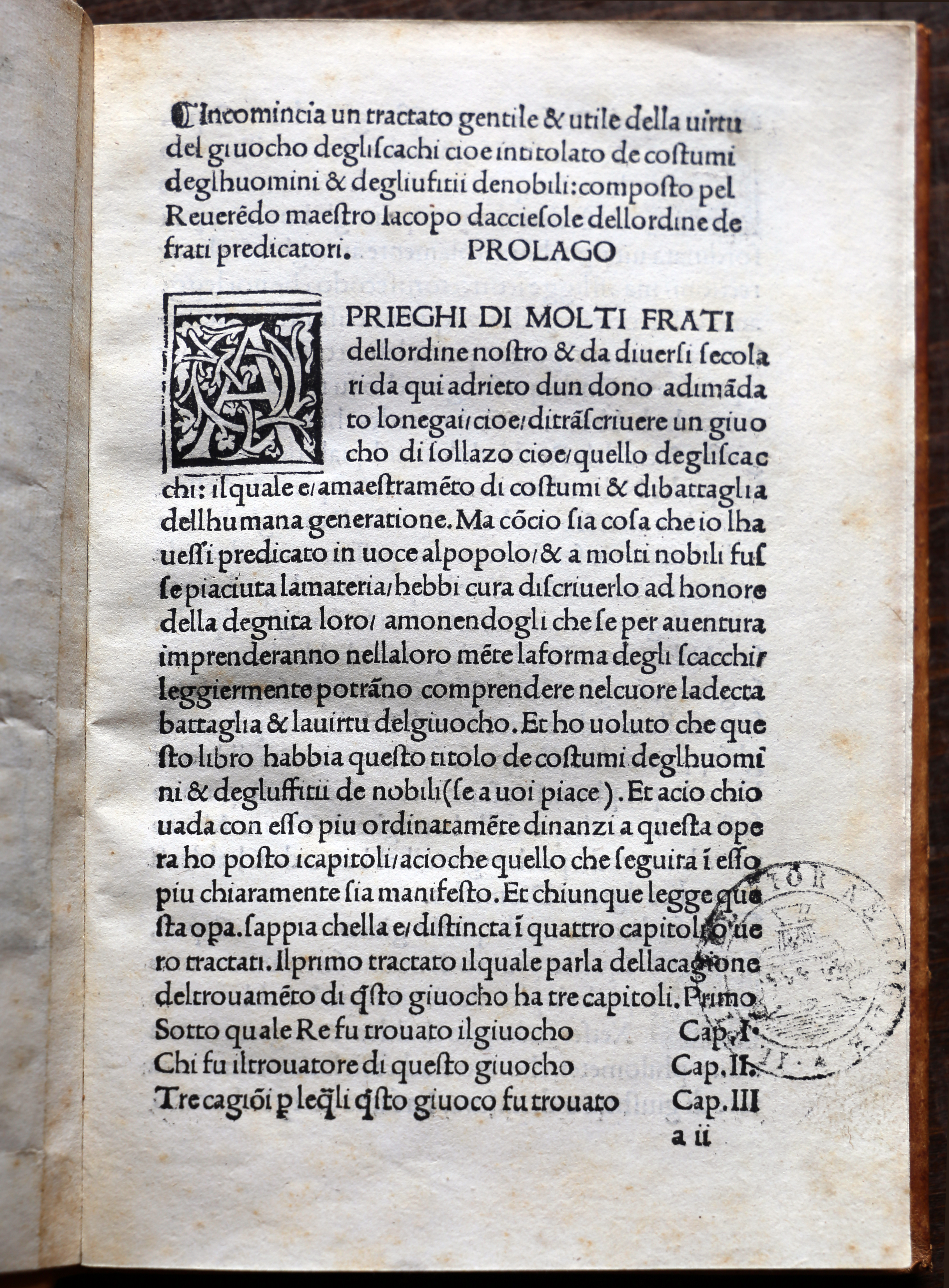 Libro di giuocho di scacchi (Crusca)